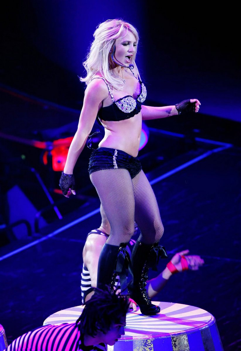 Britney Jean Spears performing in 2009.